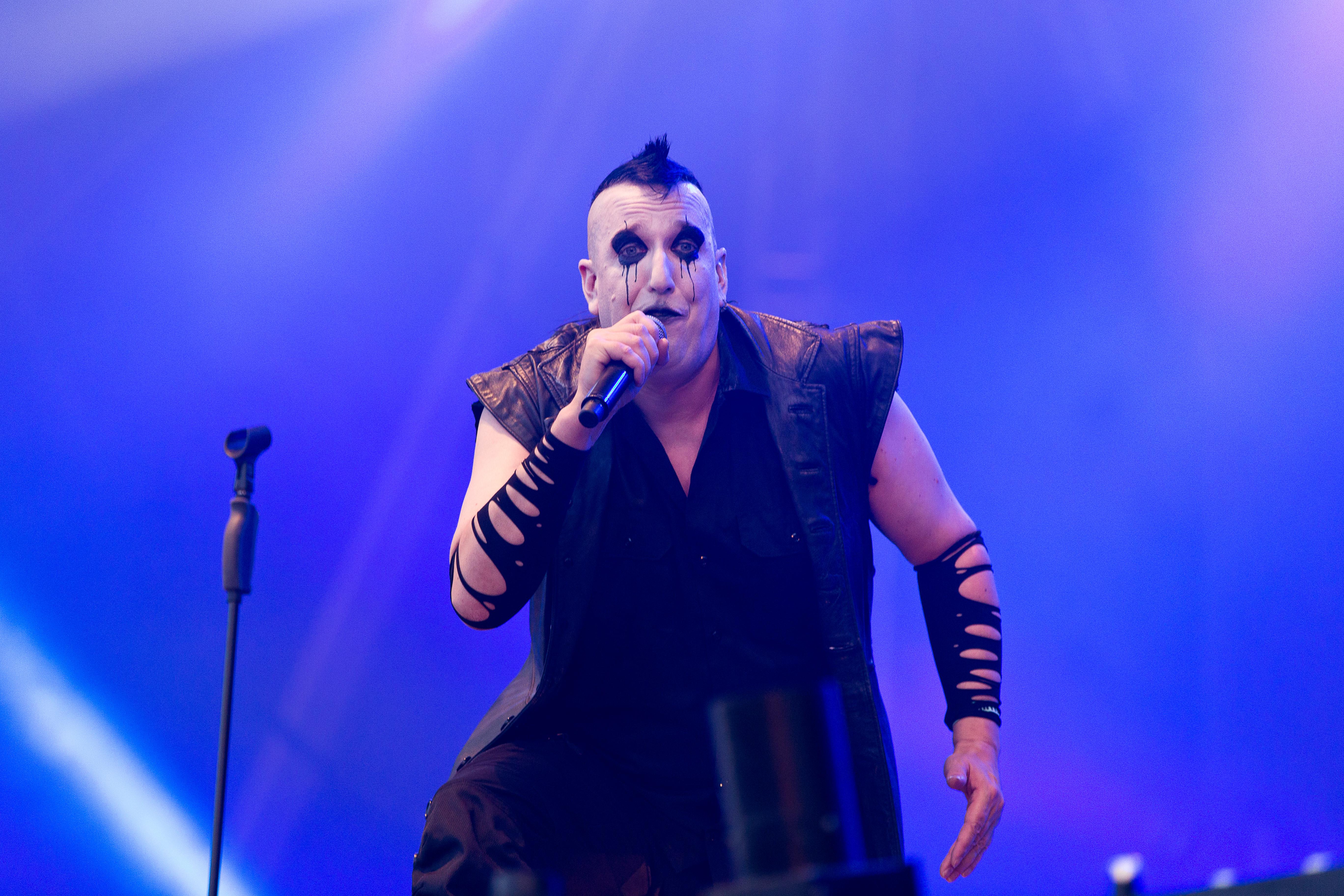 The German rock band ASP at the Rockharz Open Air 2016 in Ballenstedt/Germany.